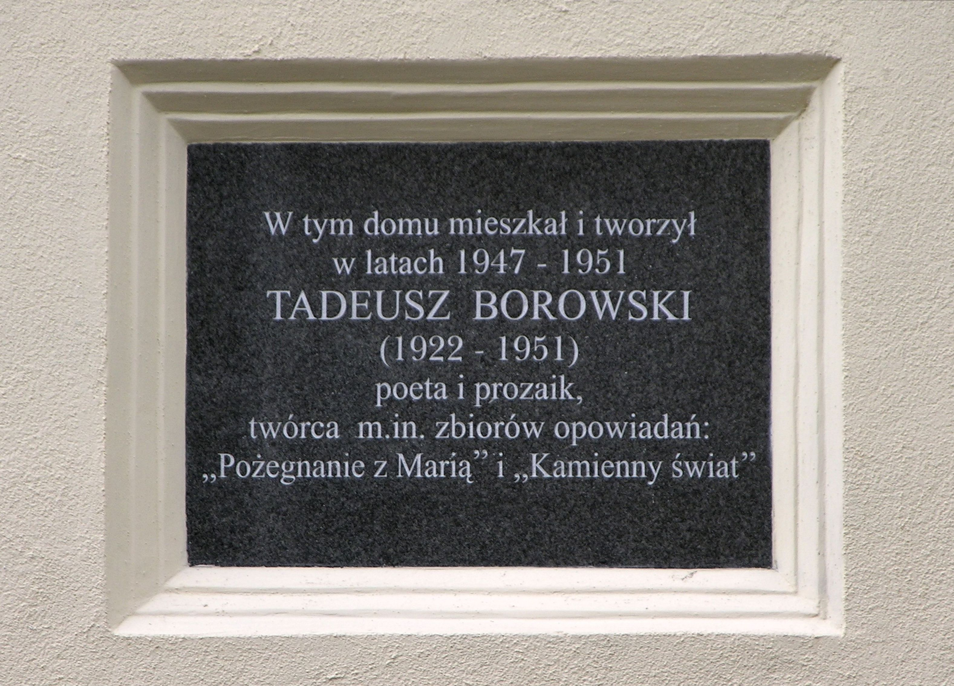 Plaque in memory of Tadeusz Borowski at 17 Kaliska Street in Warsaw